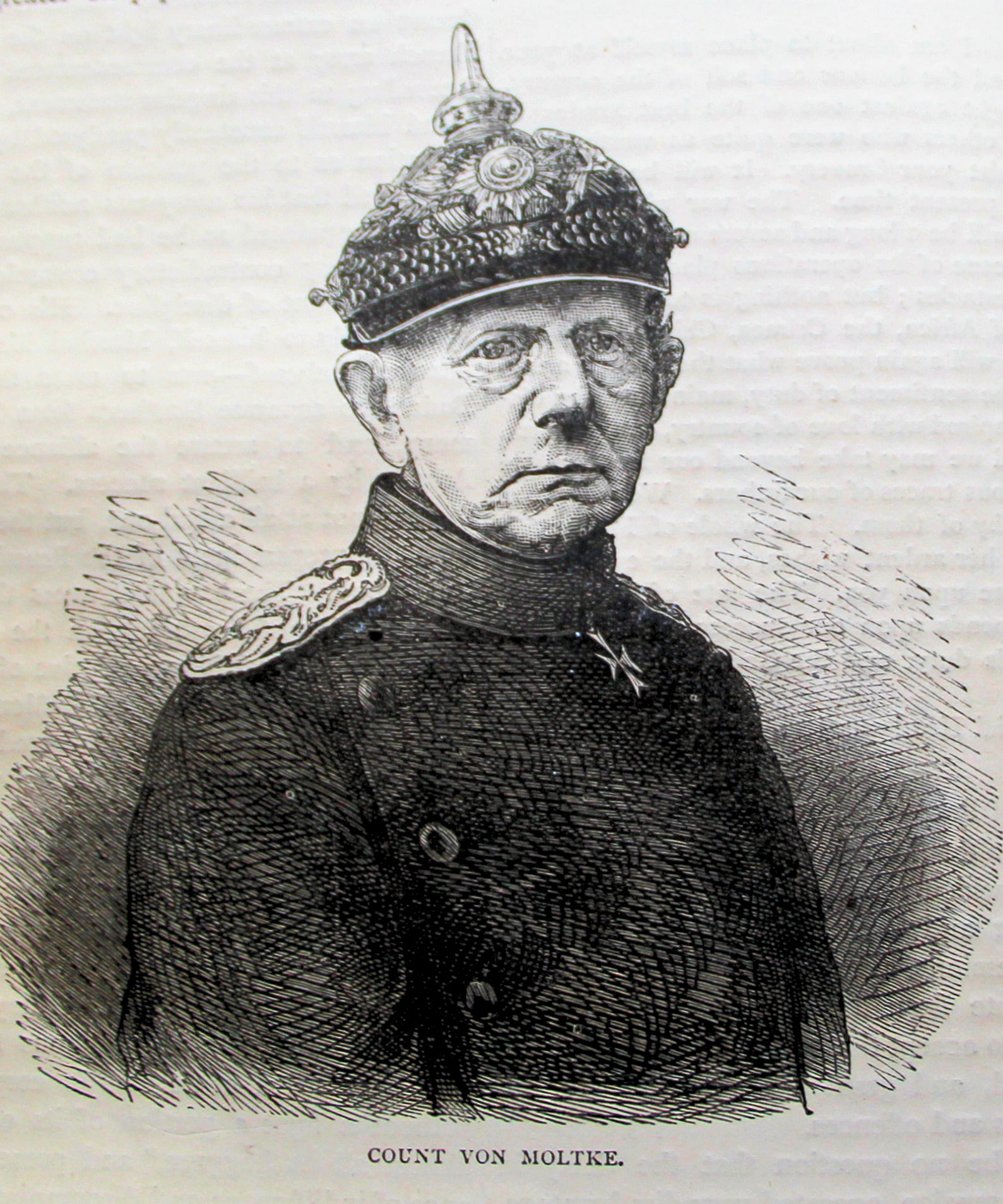 Drawing of von Moltke from Cassell's history